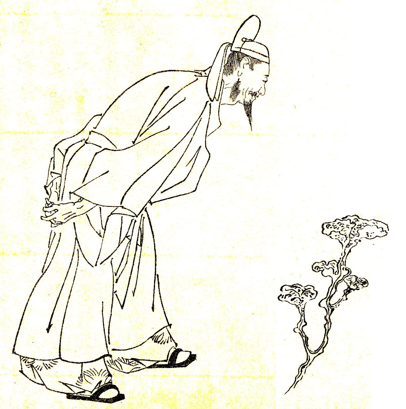 Kiyohara no Natsuno (清原夏野) was a Japanese Heian era courtier and bureaucrat.This picture was drawn by Kikuchi Yosai（菊池容斎） who was a painter in Japan.